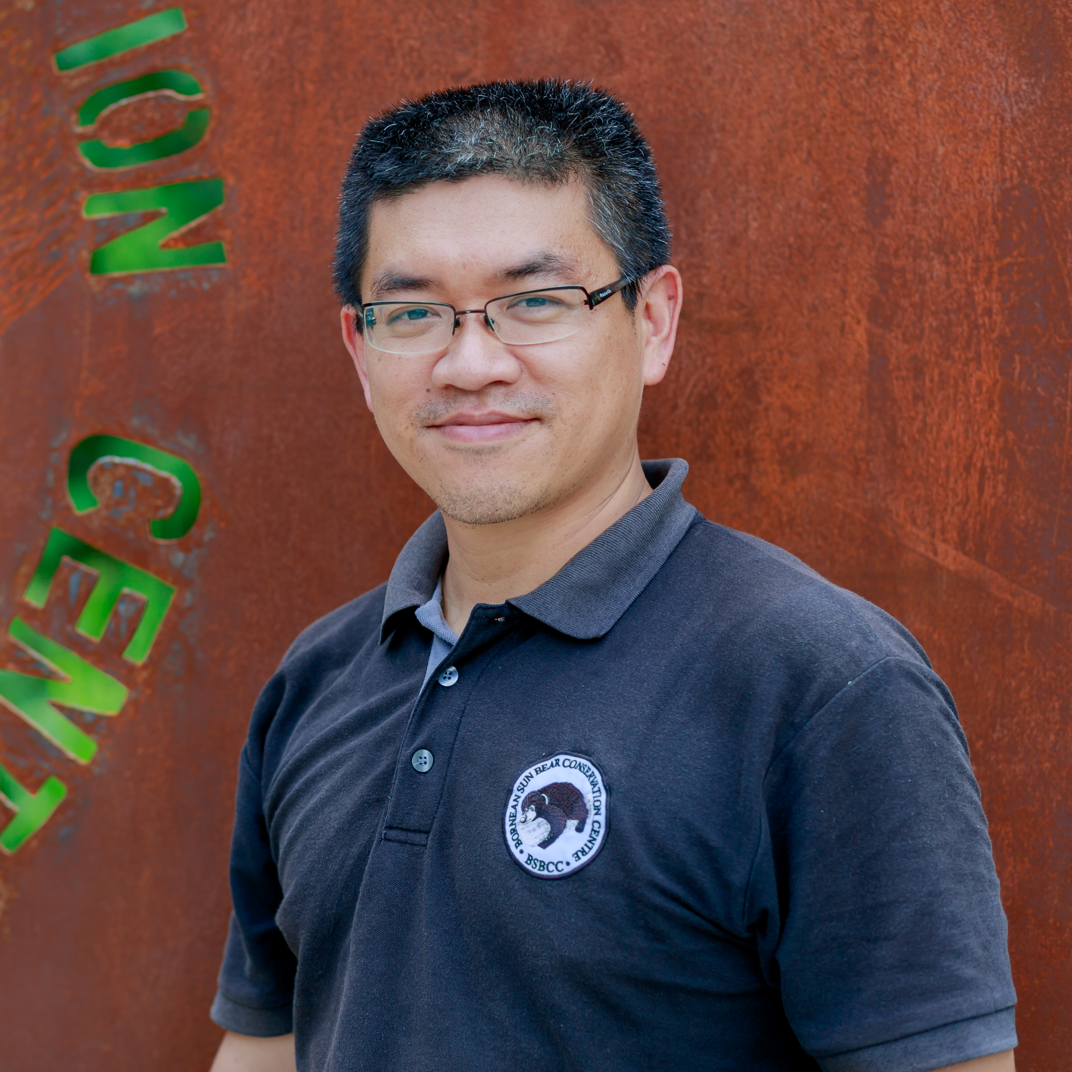 Sepilok, Sabah: Wong Siew Te, Founder and CEO of Bornean Sun Bear Conservation Centre